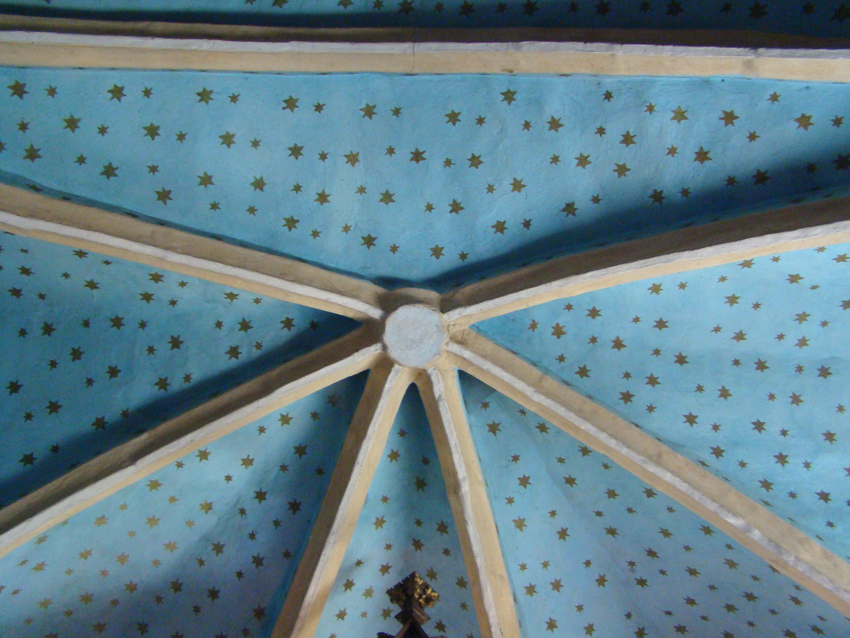 Lutheran church in Slătinița, Bistrița-Năsăud County, Romania